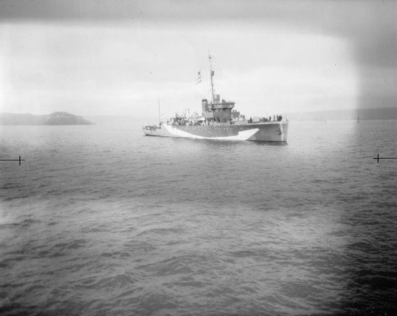 Photograph of British sloop HMS Hastings, stationary, in coastal waters.